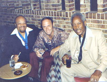 Jazzmen Red Holloway, Bubba Kolb and Sonny Stitt at the Village Jazz Lounge in Walt Disney World